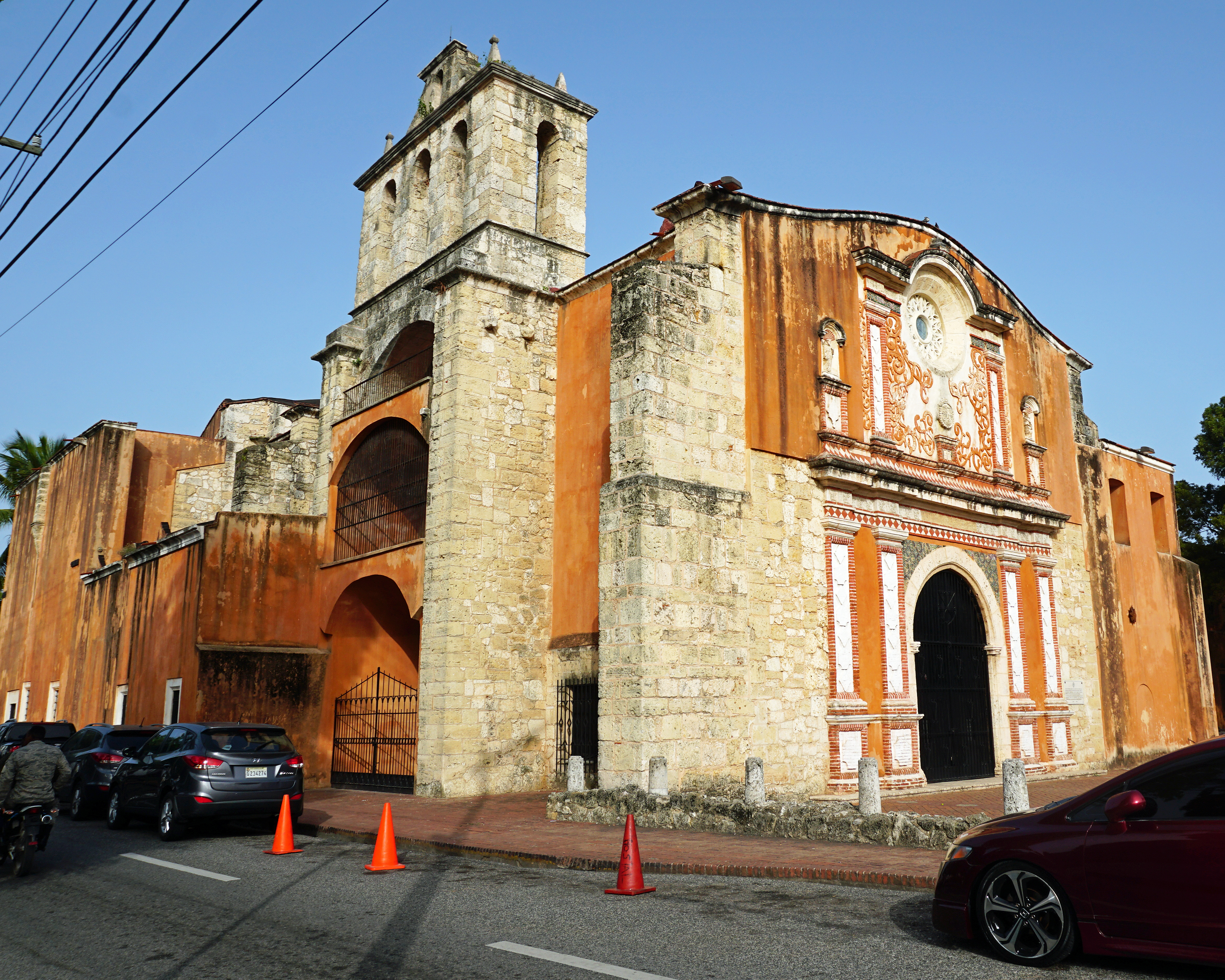 Dominican Order Church and Convent Ciudad Colonial, Santo Domingo, Dominican Republic.